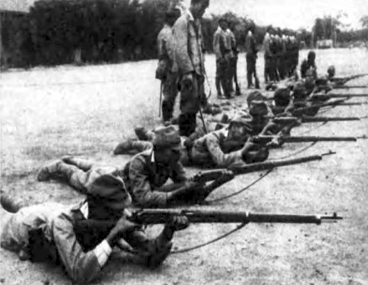 陸軍特別志願兵 (台灣)